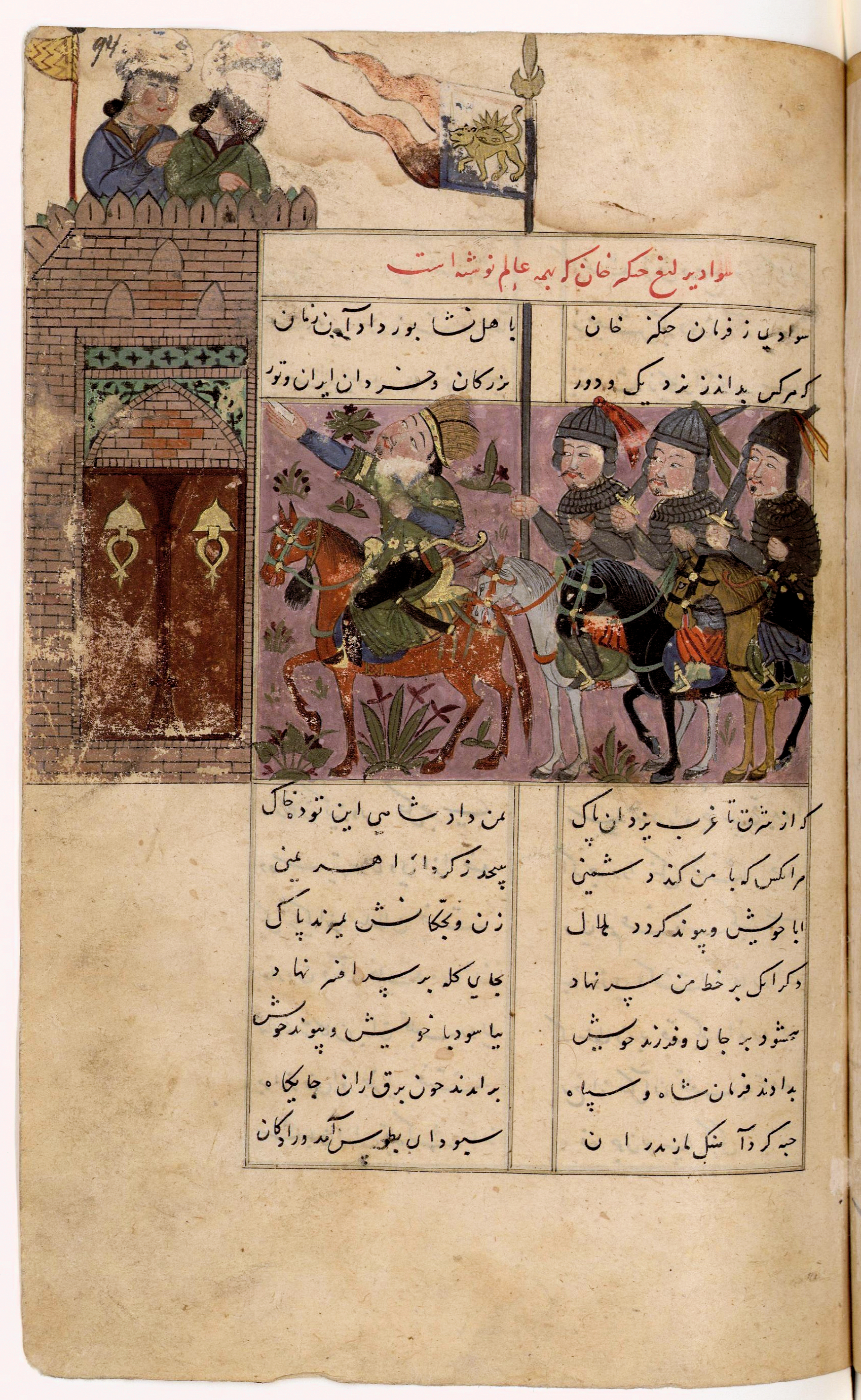 Messenger of Genghis Khan to Nishapur